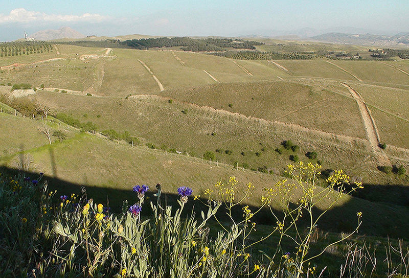 طبیعت سوهانک در فصل بهار